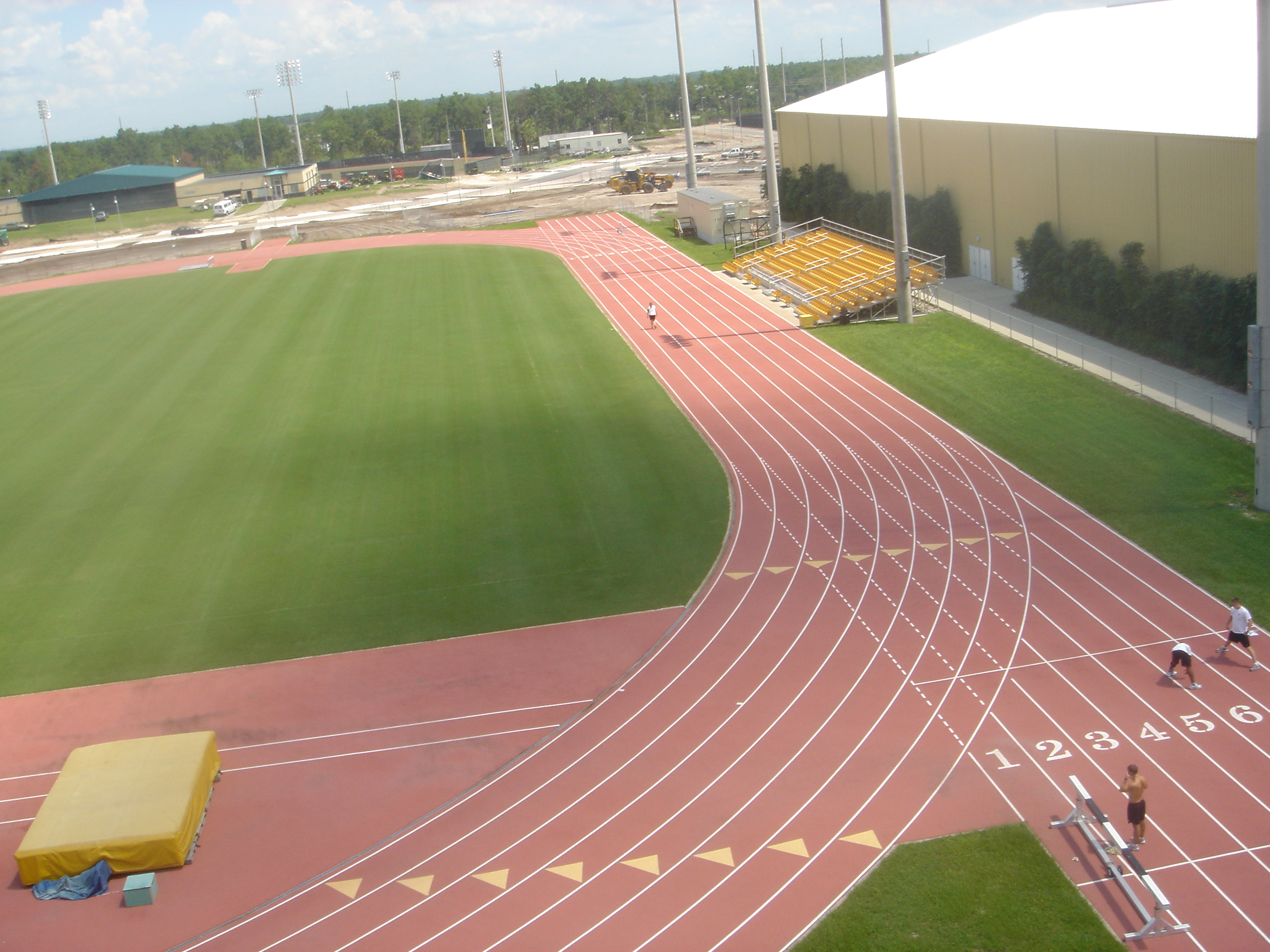 A photo of the east side of the UCF Track and Field Complex taken on July 17th, 2007.